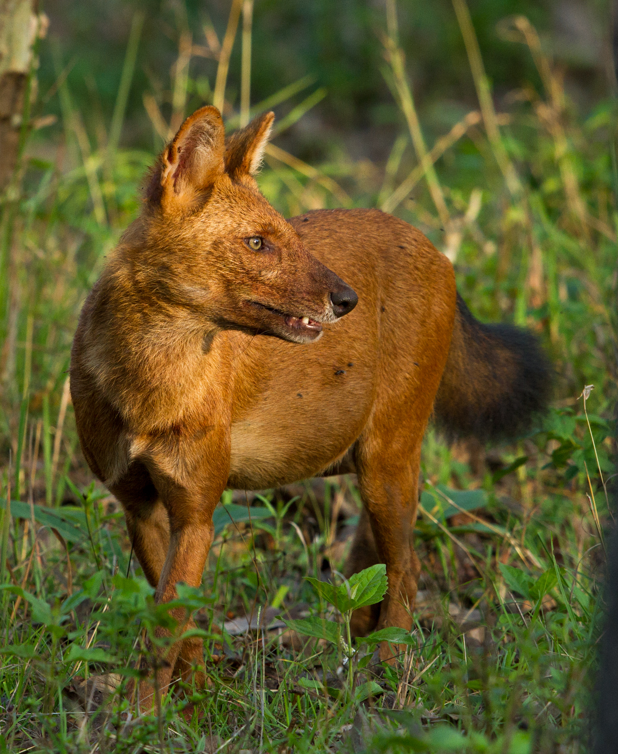 Dhole or Asiatic wild dog or Indian wild dog (Cuon alpinus).